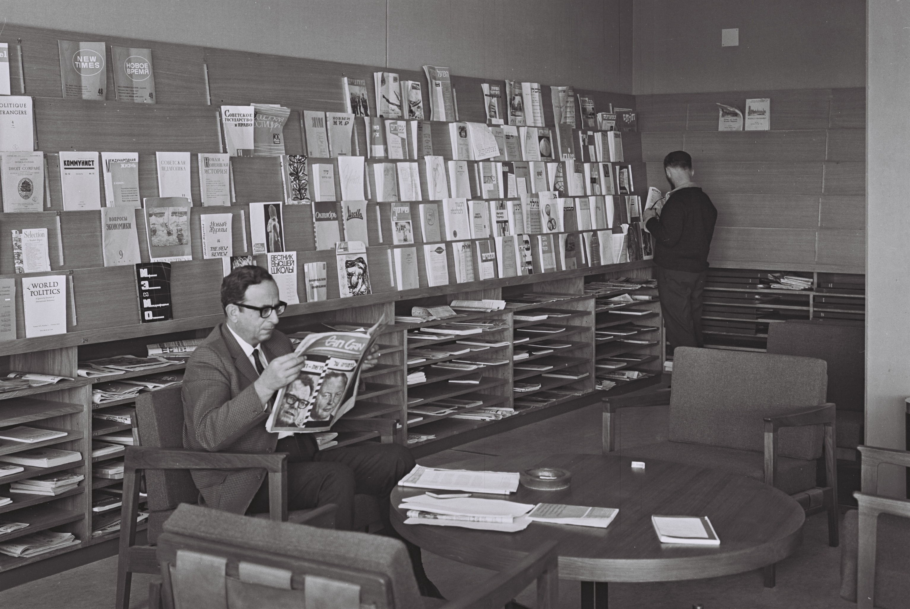 Deputy Knesset speaker Yitzhak Navon in the Knesset library.